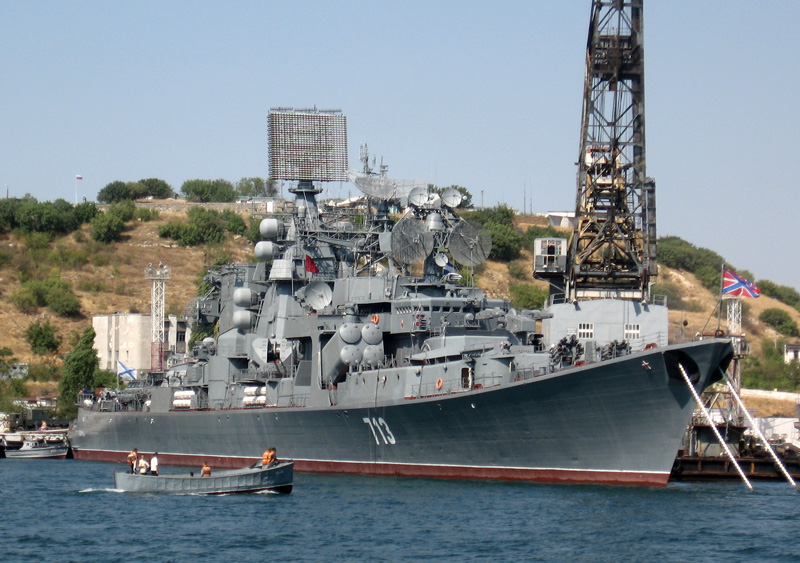 Large ASW ship project 1134B Kerch in Sevastopol.